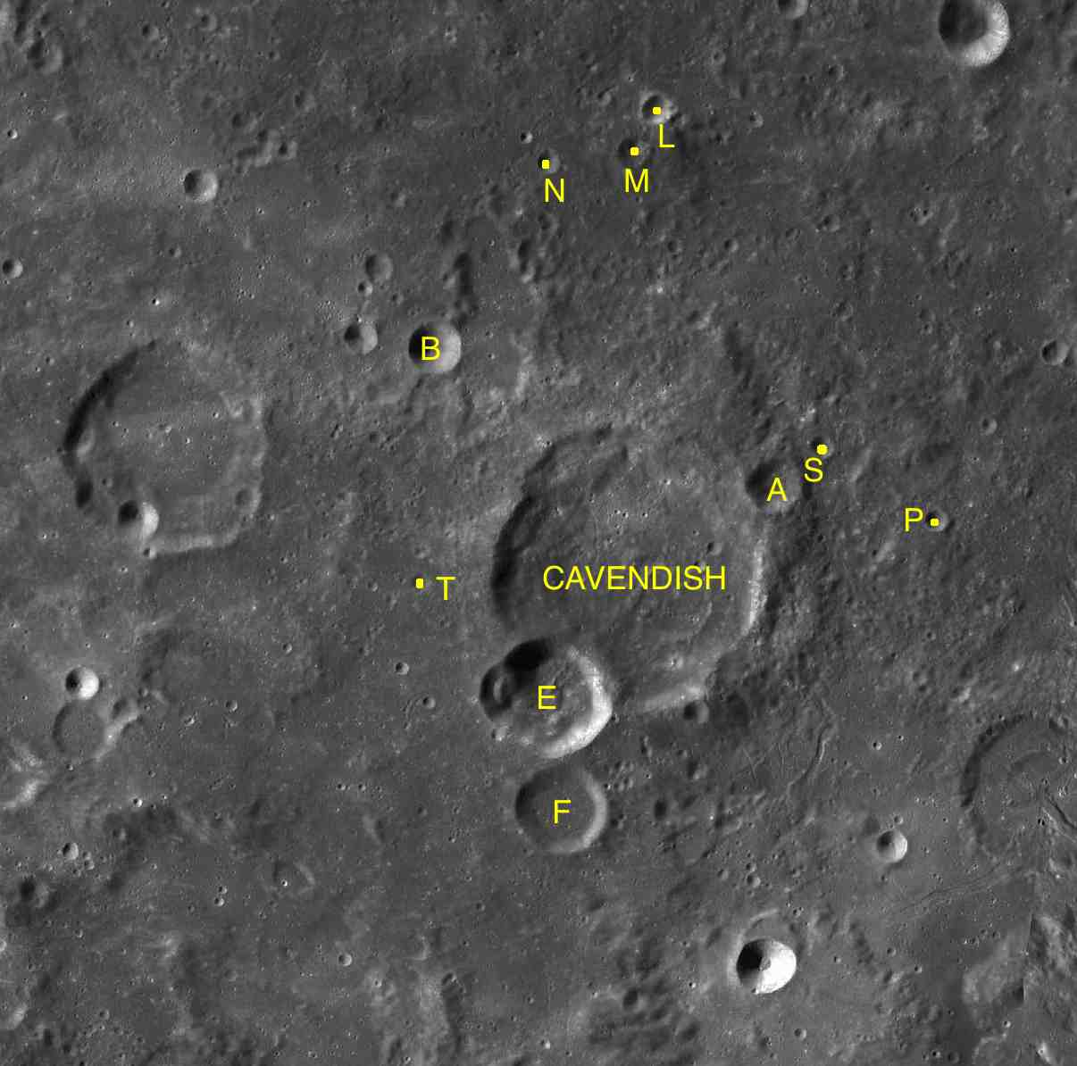 Part of the chart LAC-92 used for the presentation